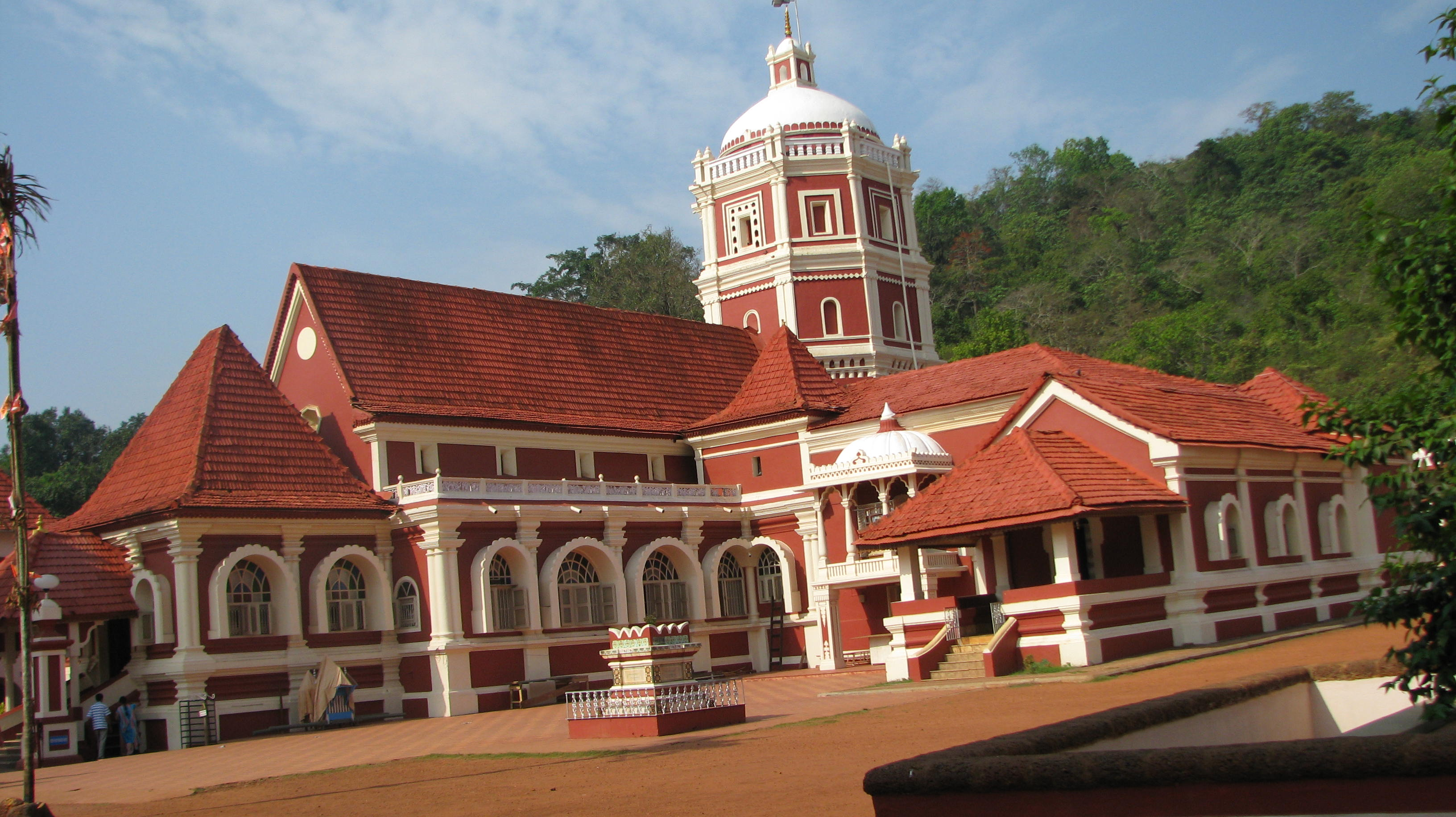 Sri Ramnath Temple at Kavlem